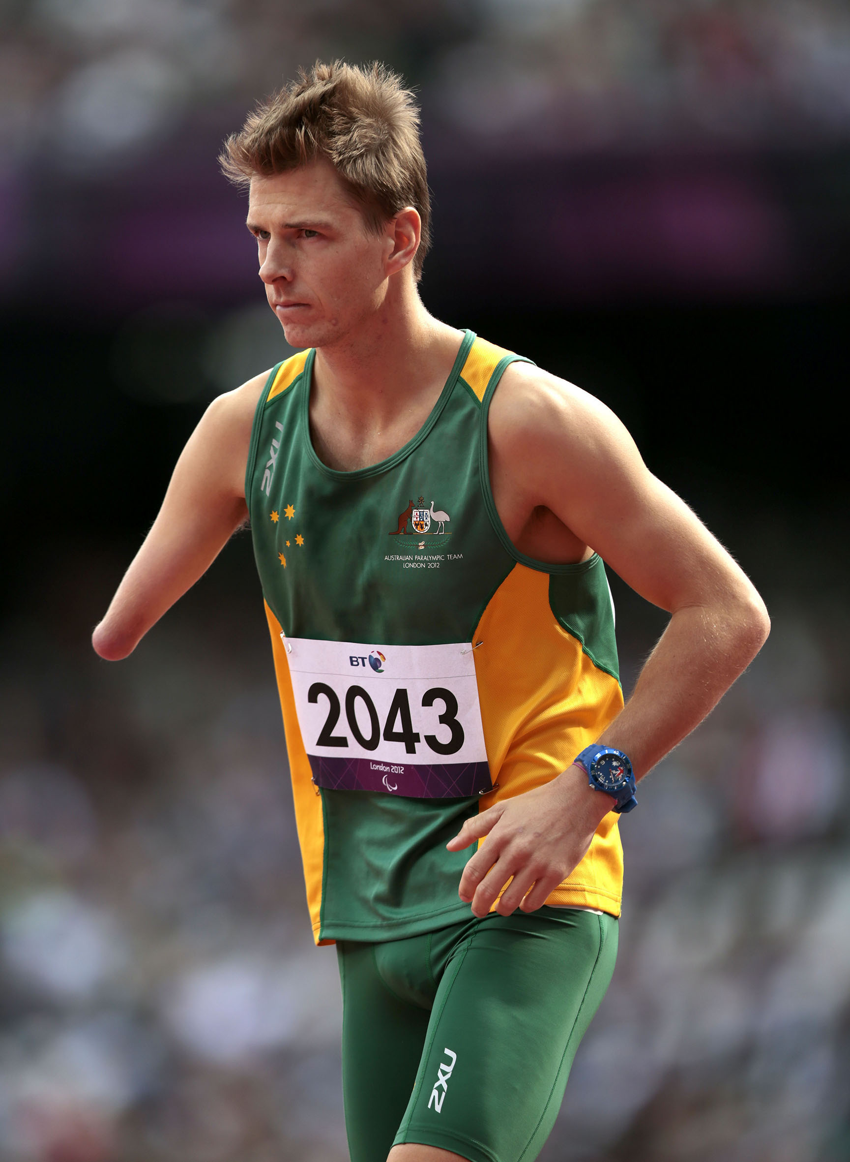 Photograph of Australian Paralympic team member Michael Roeger at the 2012 Summer Paralympic Games in London